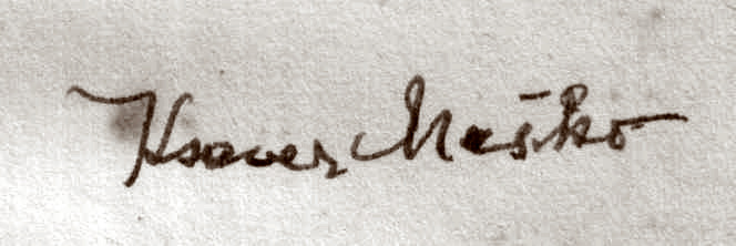 autograph (sepia) of writer Franc Ksaver Meško with his hand in his book Izbrano delo IV. (MD Celje 1959) donated to me on 23. VII. 1959 and I scanned it